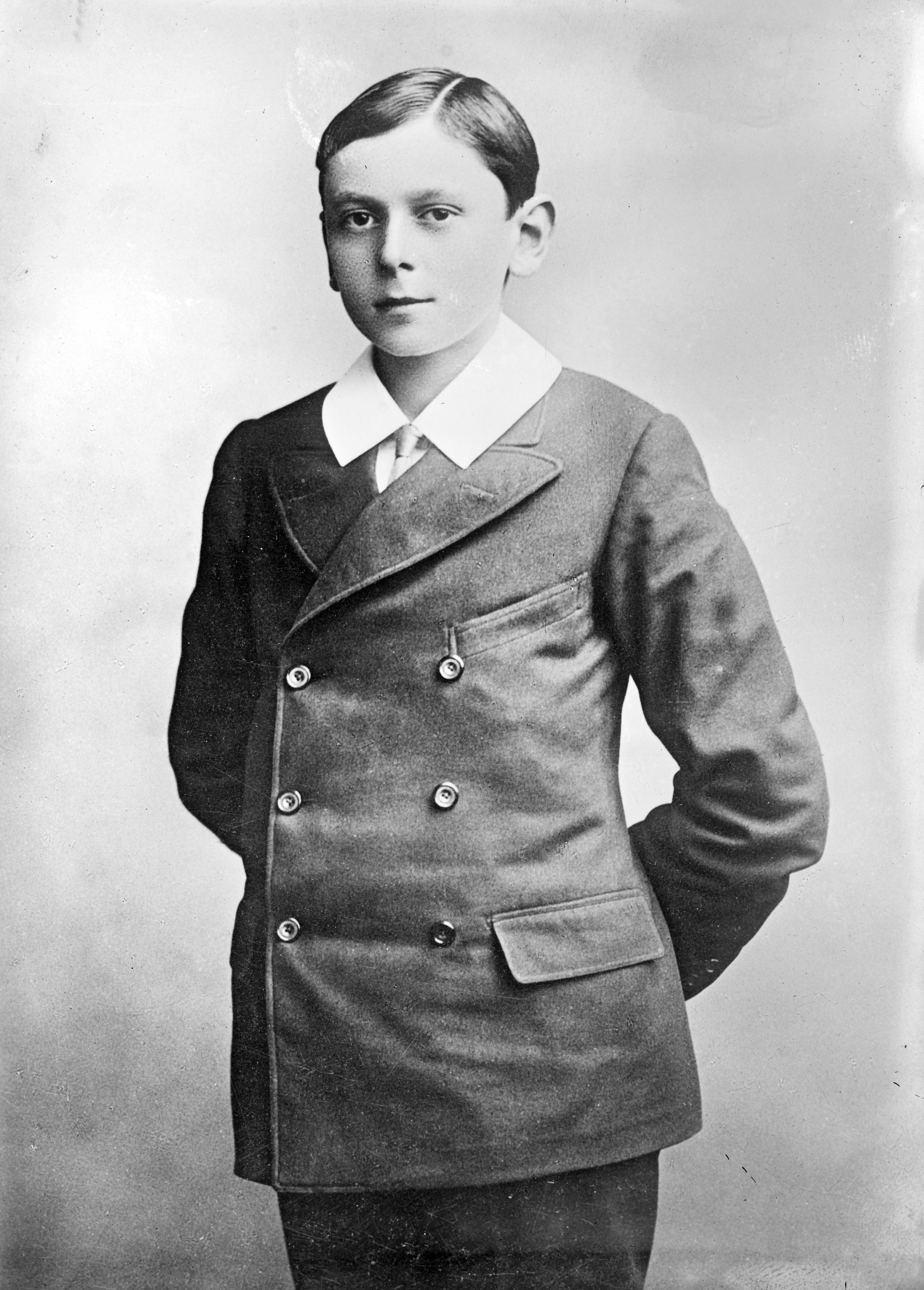 Prince Maurice of Battenberg circa 1900-1905 Prince Maurice of Battenberg (LOC) Bain News Service,, publisher. Prince Maurice of Battenberg [between ca. 1910 and ca. 1915] 1 negative : glass ; 5 x 7 in. or smaller. Notes: Title from unverified data provided by the Bain News Service on the negatives or caption cards. Forms part of: George Grantham Bain Collection (Library of Congress). Format: Glass negatives. Repository: Library of Congress, Prints and Photographs Division, Washington, D.C. 20540 USA, General information about the Bain Collection is available at Persistent URL: Call Number: LC-B2- 3278-14